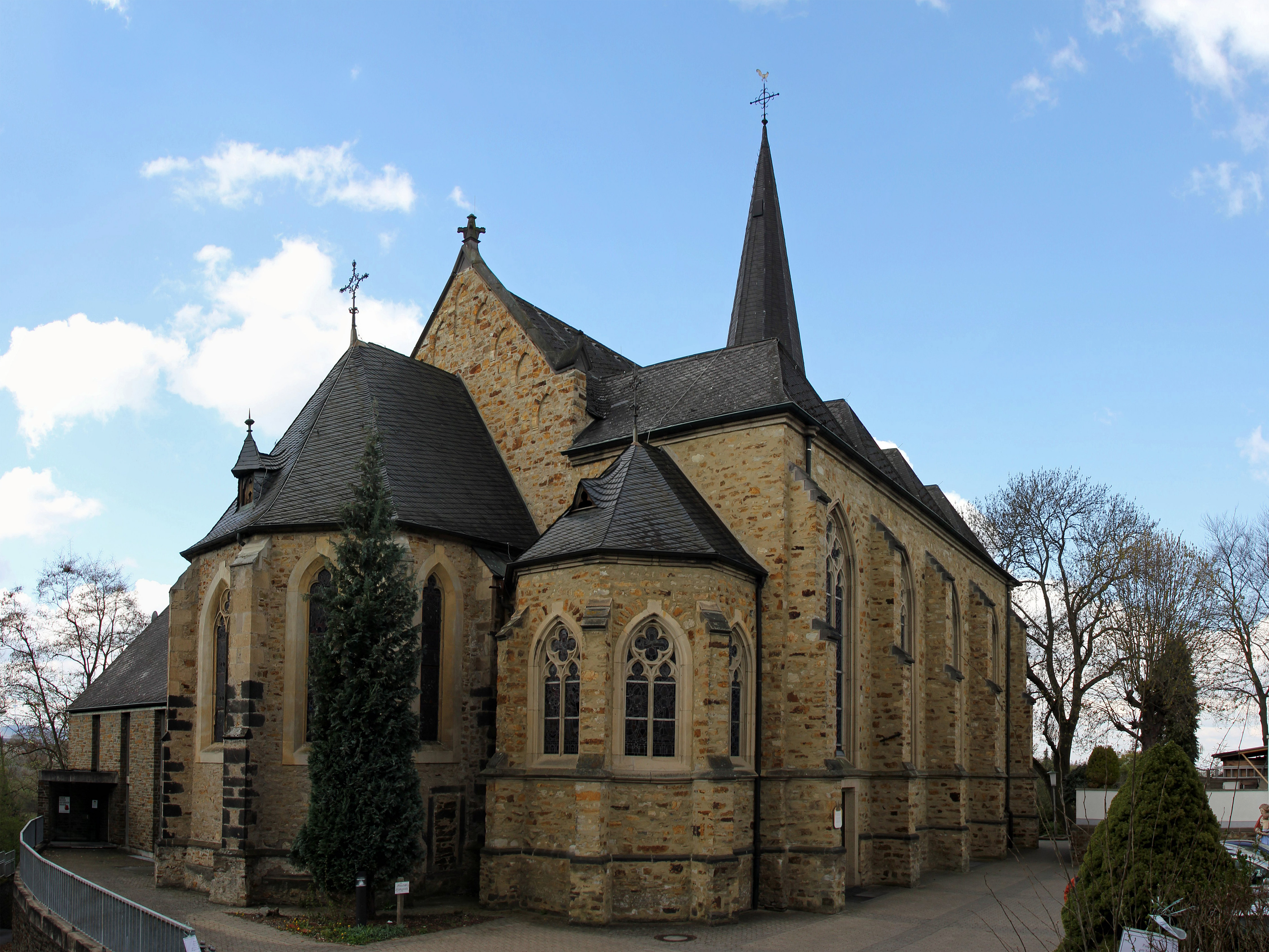 St. Aldegundis church in Koblenz